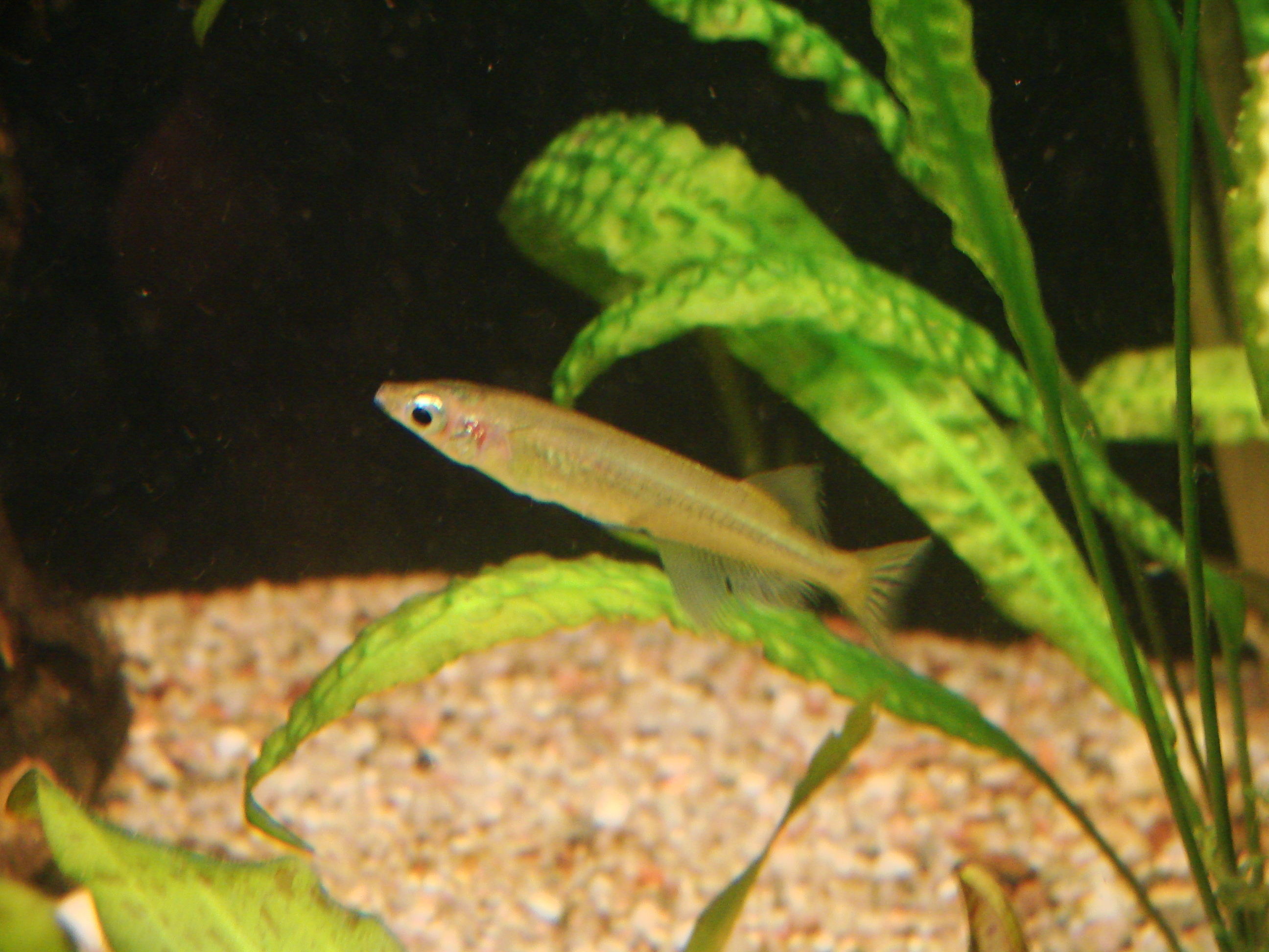 Wrocław zoo